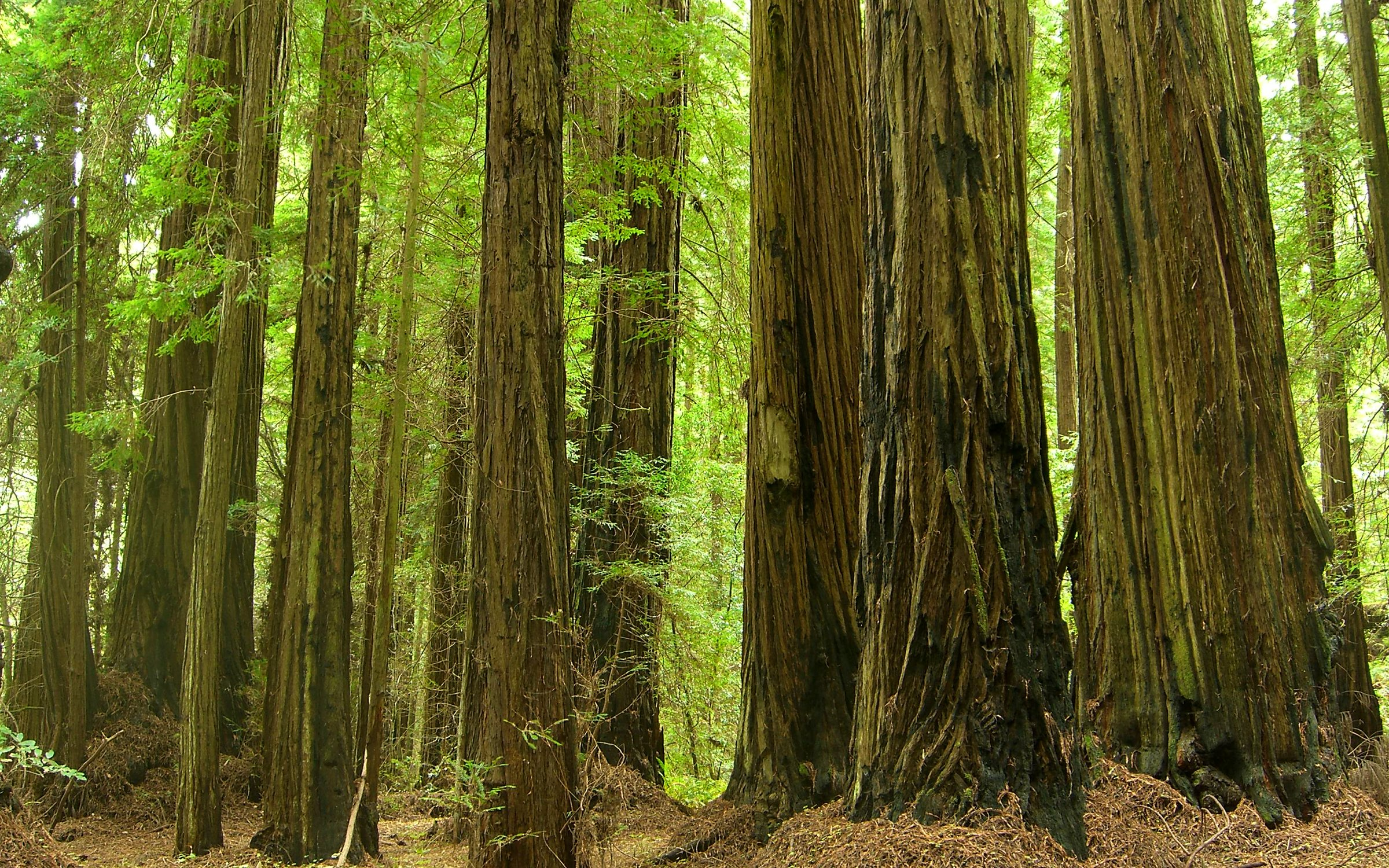 Redwood (Sequoia sempervirens (D. Don) Endl.), Grizzly Creek Redwoods State Park, California, USA. Certainty: positive (notes)